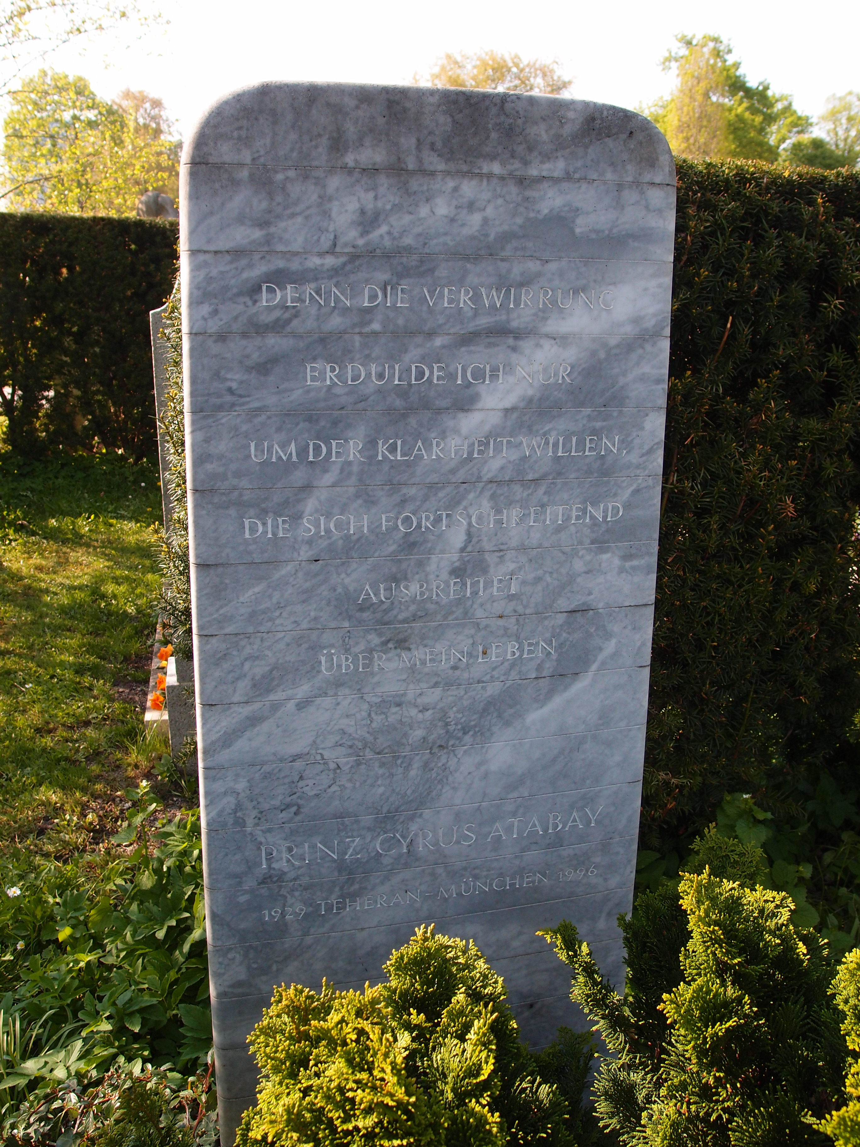 Grave of Cyrus Atabay (1929-1996), an Iranian writer in German language, on the Northern Cemetery in Munich